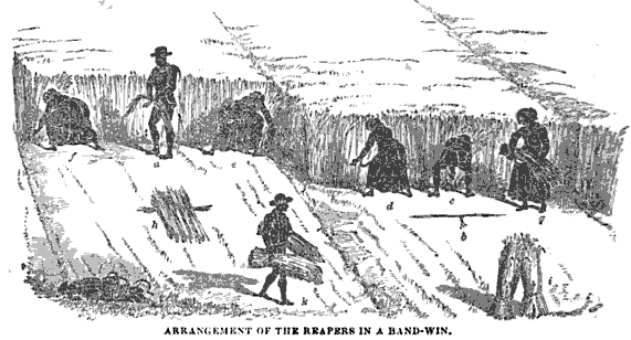 Image of the organisation of reapers in a Bandwin from The Farmer's Guide to Scientific and Practical Agriculture: Detailing the Labors of the Farmer, in All Their Variety, and Adapting Them to the Seasons of the Year as They Successively Occur, Volume 2 (1851)